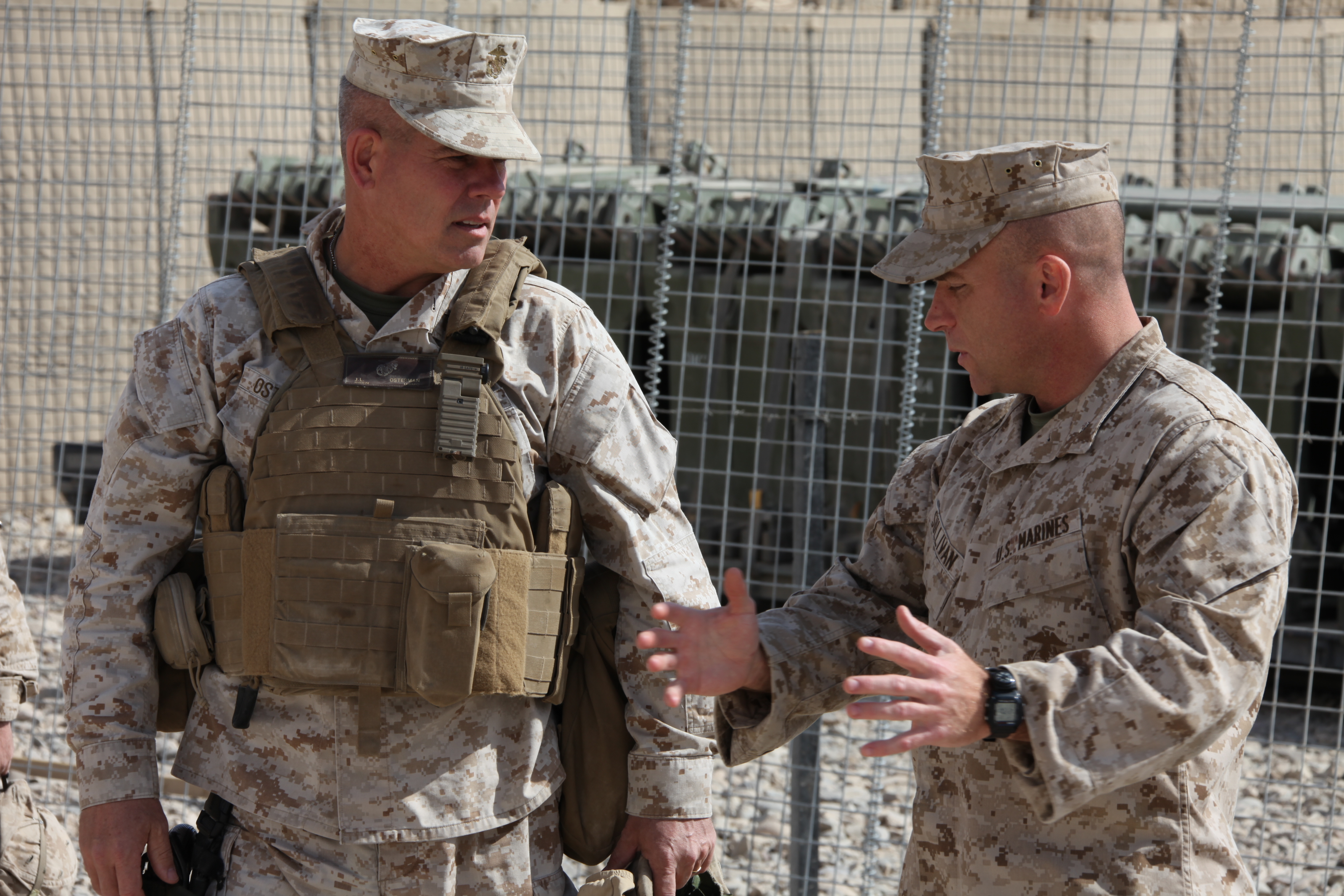 U.S. Marine Corps Lt. Col. Farrell Sullivan, commanding officer of Battalion Landing Team 3/8, 26th Marine Expeditionary Unit, Regimental Combat Team 2, explains the layout of Forward Operating Base Price to Brig. Gen. Joseph Osterman, commanding general of 1st Marine Division (Forward), during a command visit to FOB Price, Helmand province, Afghanistan, Jan. 29, 2011. Elements of 26th Marine Expeditionary Unit deployed to Afghanistan to provide regional security in Helmand province in support of the International Security Assistance Force.